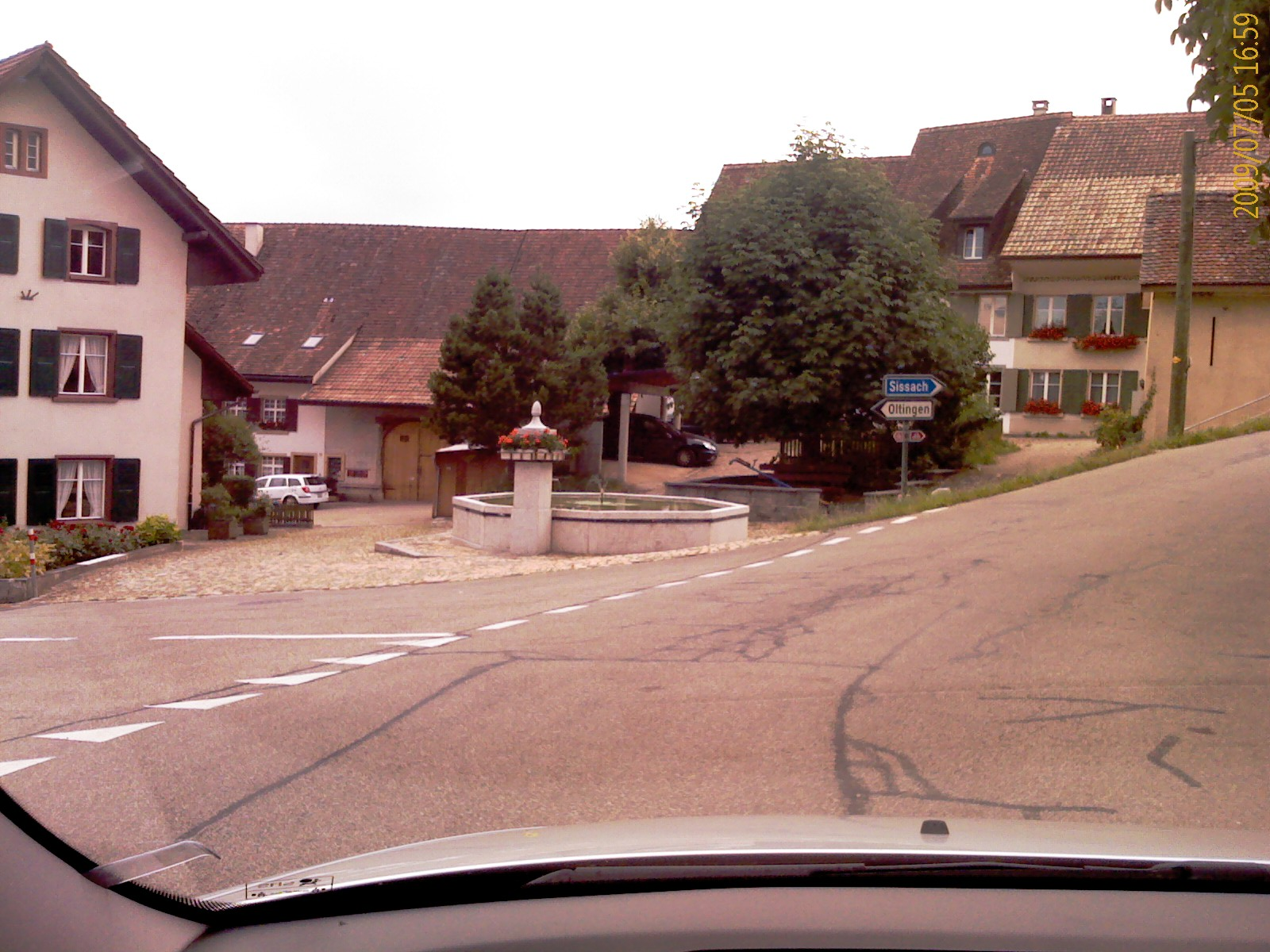 Fountain in the center of Anwil, canton of Basel-Country, SwitzerlandEsperanto: Fonto en la centro de Anwil, Kantono Bazelo Kampara, Svislando